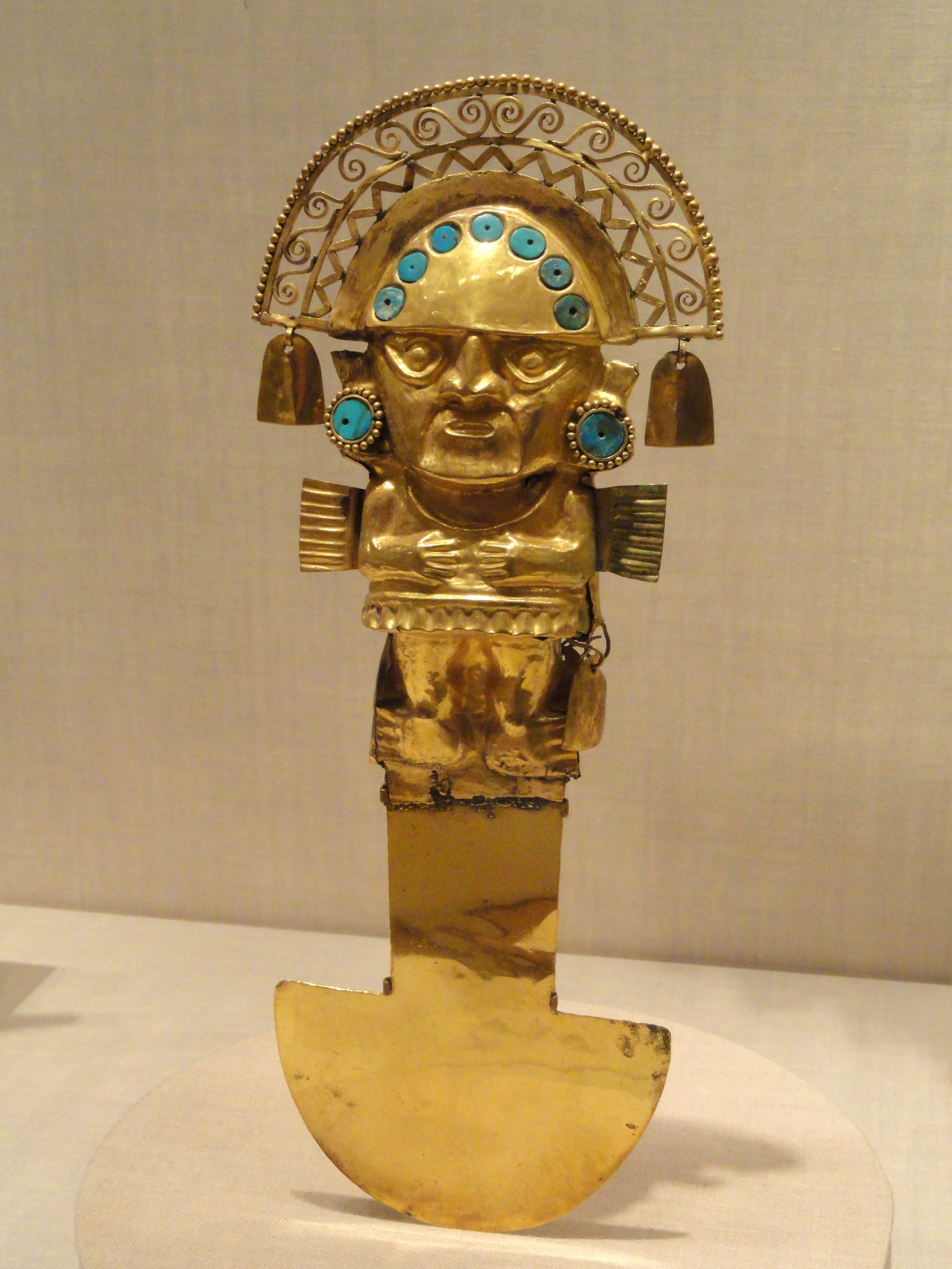 Exhibit in the Art Institute of Chicago, Chicago, Illinois, USA. This artwork is in the public domain because the artist died more than 70 years ago.